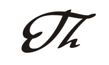 Ligature "Th" in handwriting font Taumfel